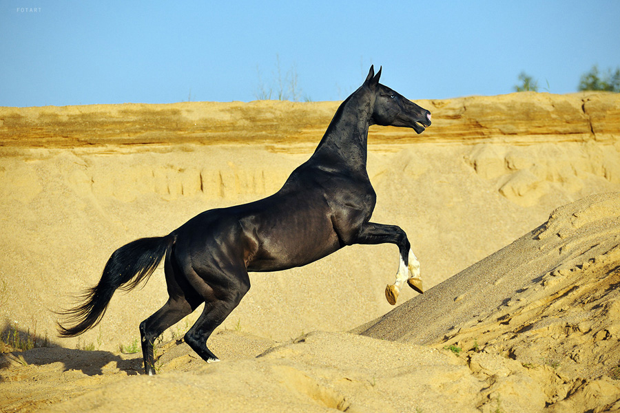 Akhal-teke stallion Tokhtamysh